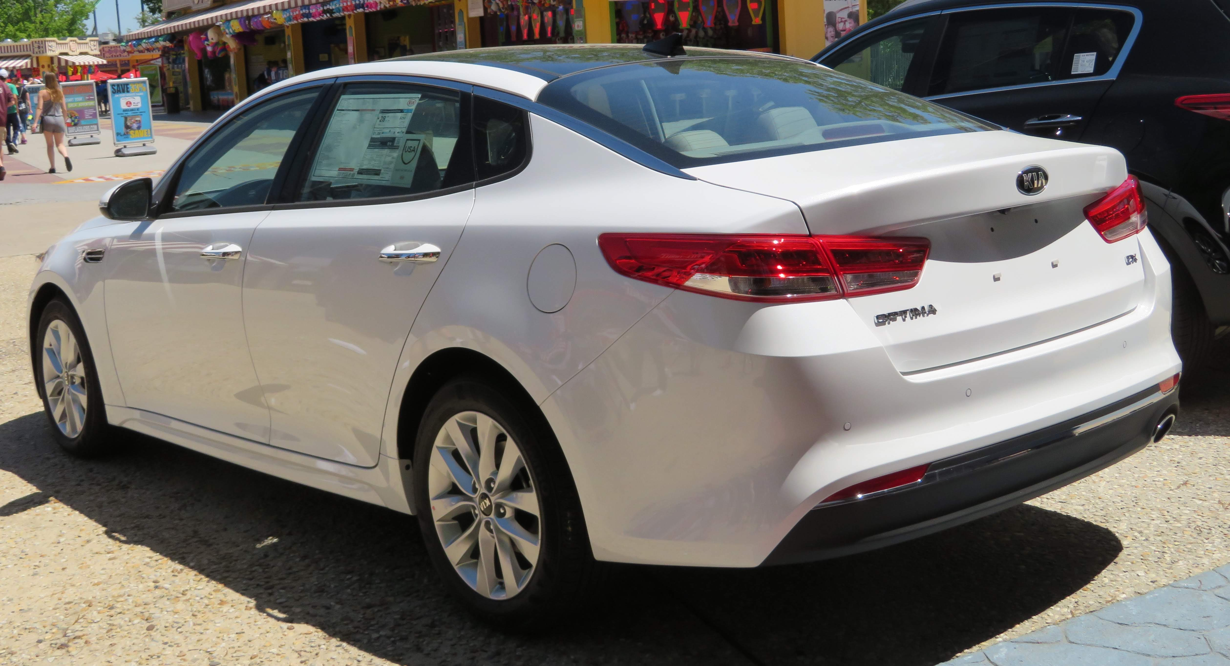 Photographed in Six Flags Amusement Park(Sponsored), Jackson, New Jersey.